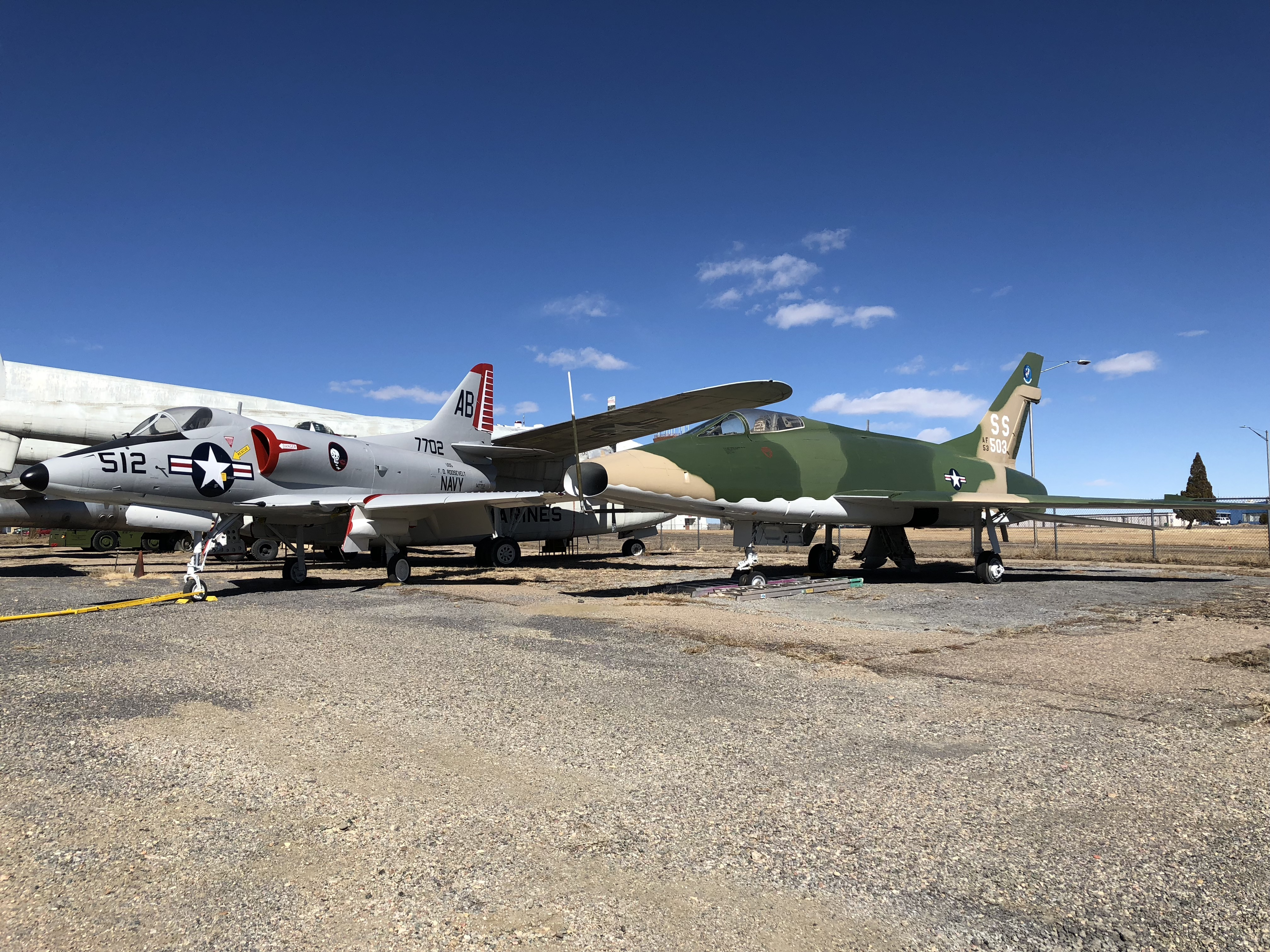 Pueblo Weisbrod Aircraft Museum's Douglas A-4C Skyhawk and North American F-100D Super Sabre. Photograph taken on 25 February 2018.